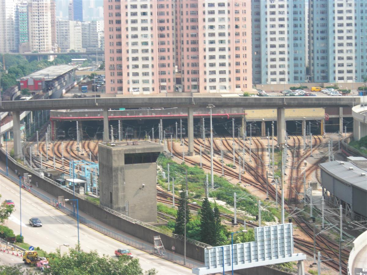 A view taken from Choi Wing Road. MTR Kowloon Bay Depot is seen.